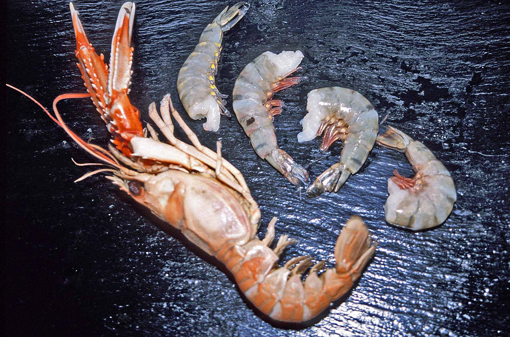 Scampi (Nephrops Norvegicus), og tigerreker